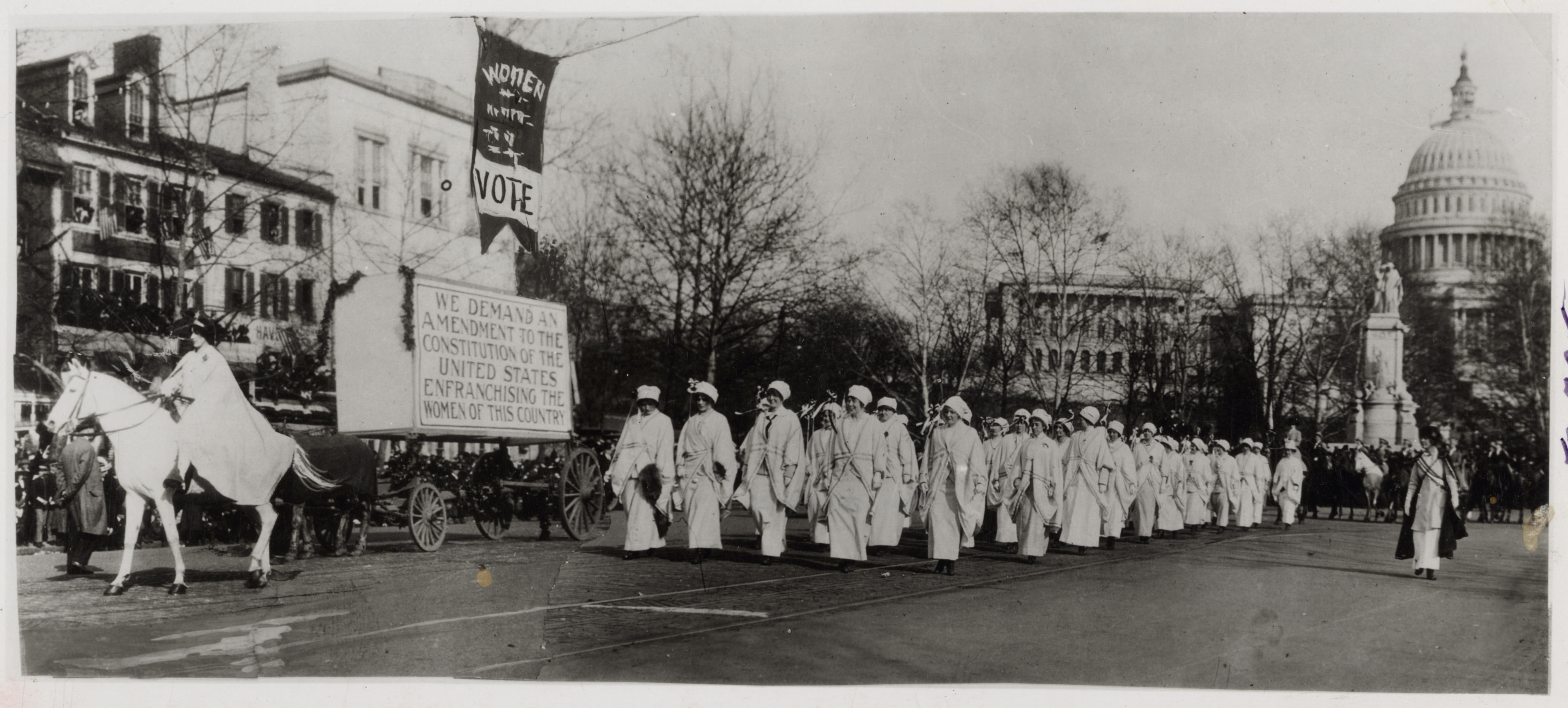 Rediscovery identifier:28110